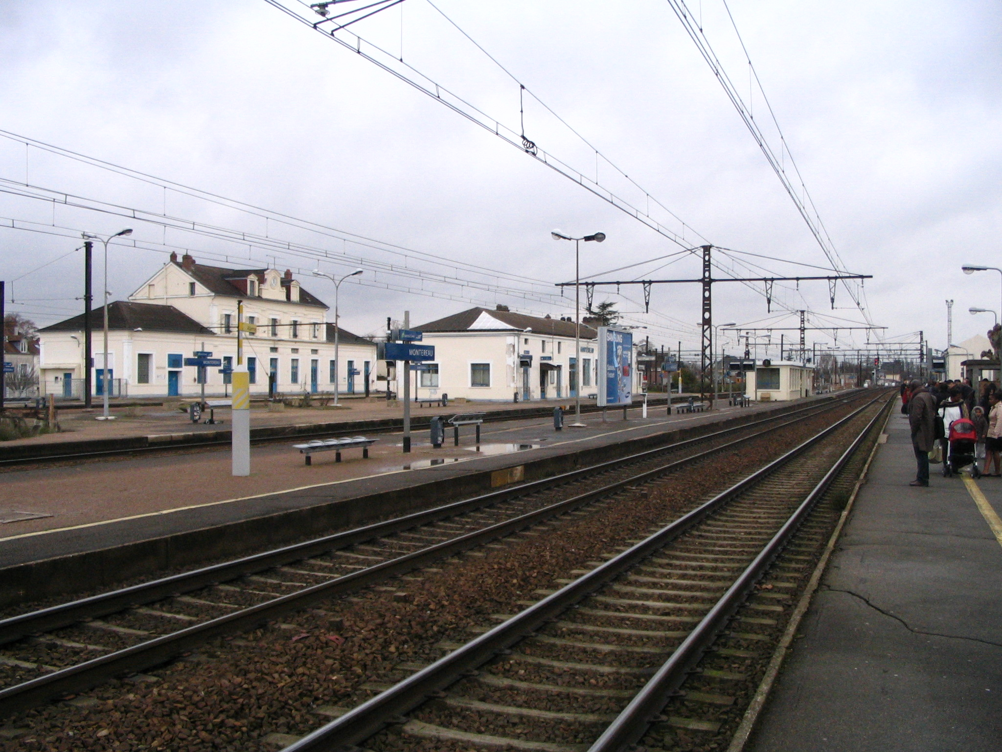 The train station of Montereau, in Montereau-Fault-Yonne, Seine-et-Marne, France.